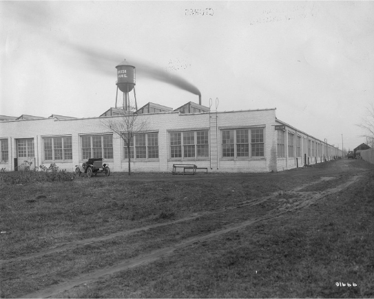 7.5x9.25 black and white photograph of the Brush Runabout Company factory located at Oakland and Rhode Island Avenues in Highland Park with automobile next to factory